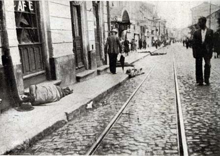 Jewish bodies in a street in Iaşi, Romania, after the Iași pogrom in 1941.